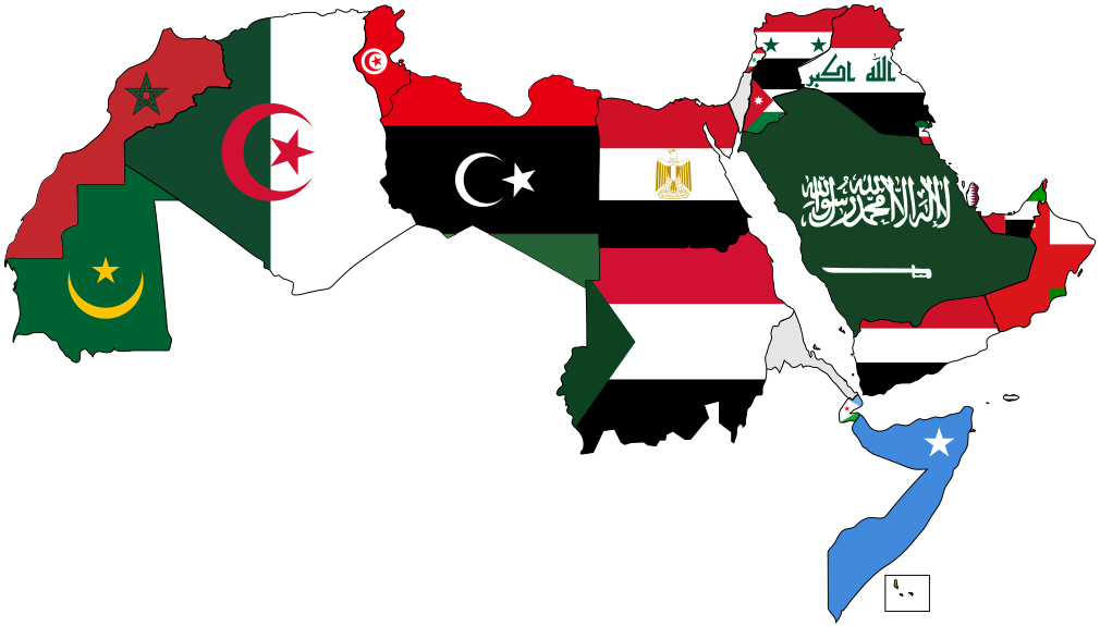 Drapeaux des pays de la ligue arabe 1.png